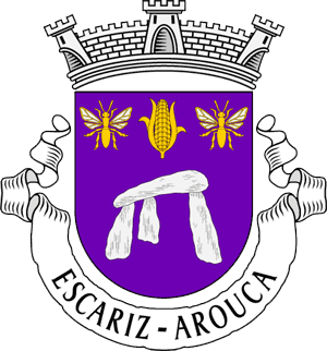 Crest of Escariz parish, Arouca municipality (Portugal)